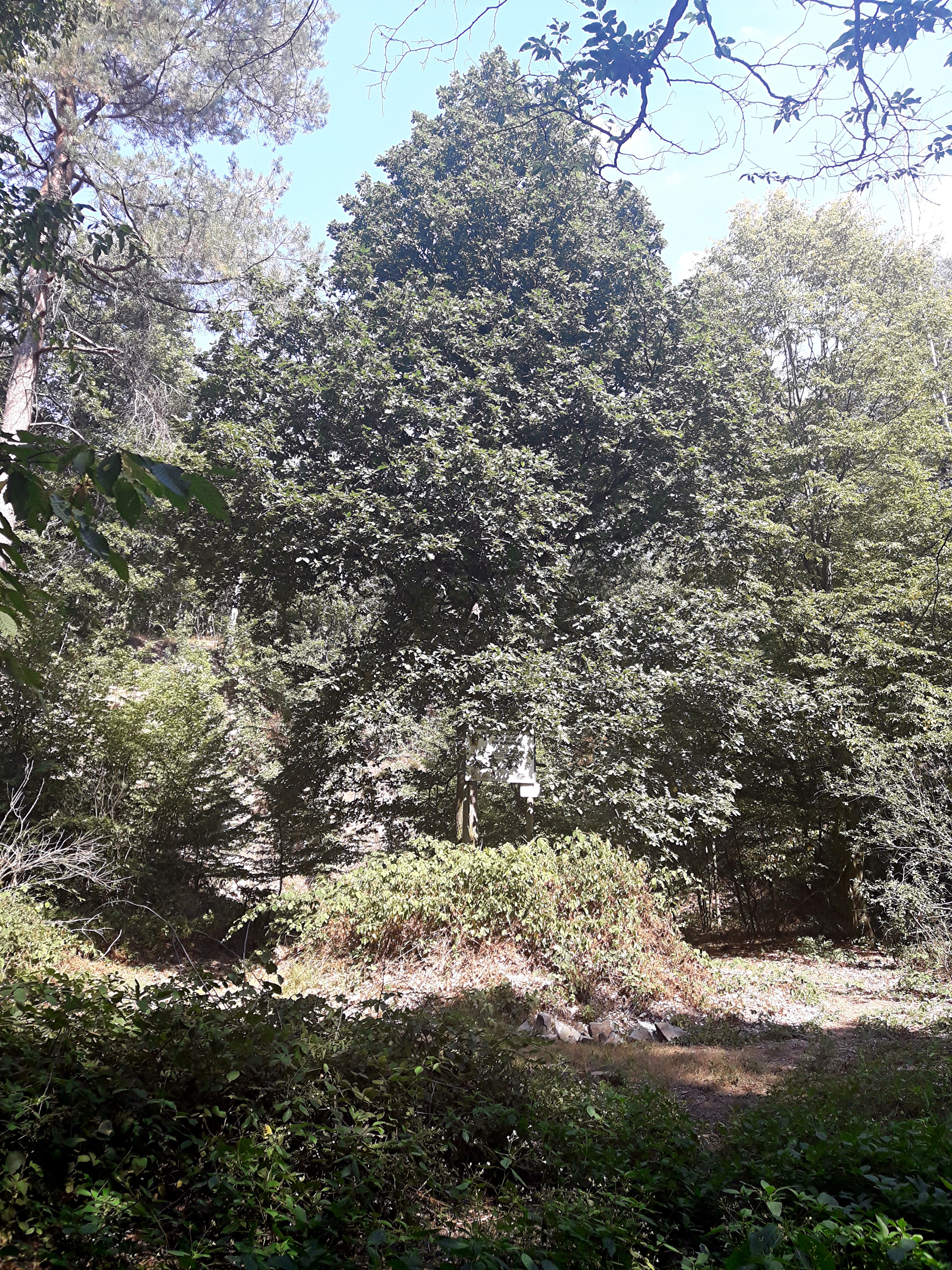 Graywacke Rock near the hill Collmberg